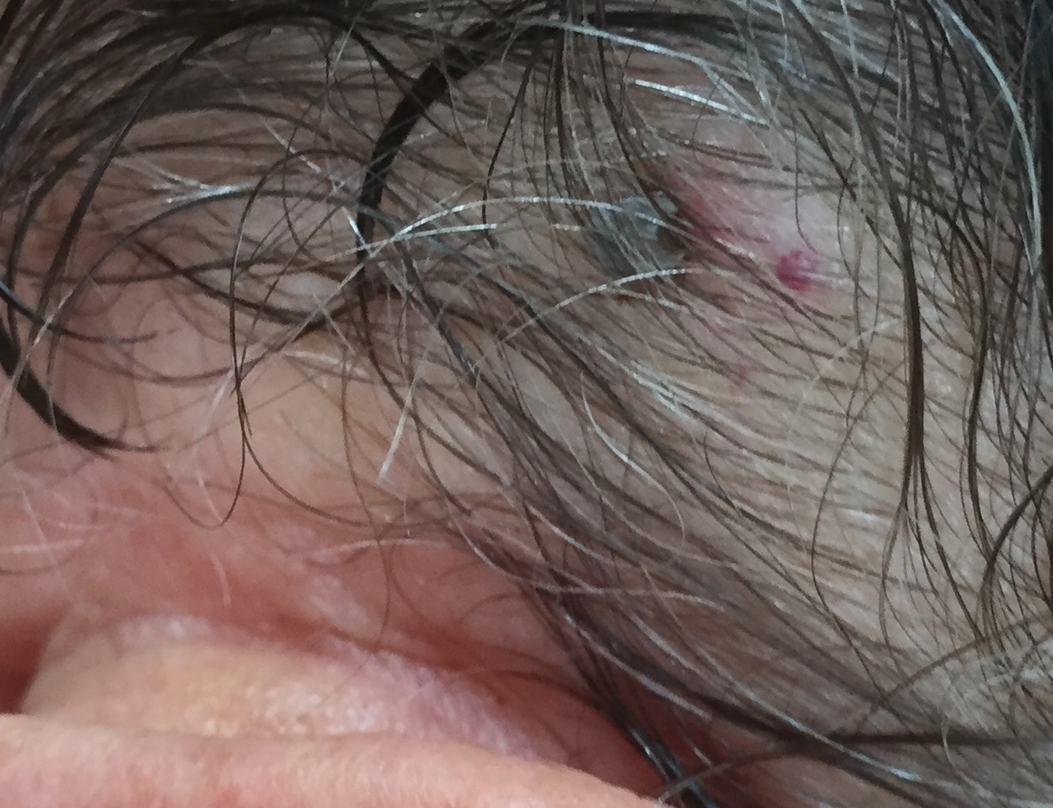 The photograph shows a paralysis tick that had been attached to human skin just behind the ear for just over four days before it was discovered. Although a large area around the tick exhibits symptoms of hypoesthesia (numbness) it was thought that the symptoms were due to a shar object or spider bite. Later onset of flu-like symptoms and increased numbness resulted in hospital treatment.